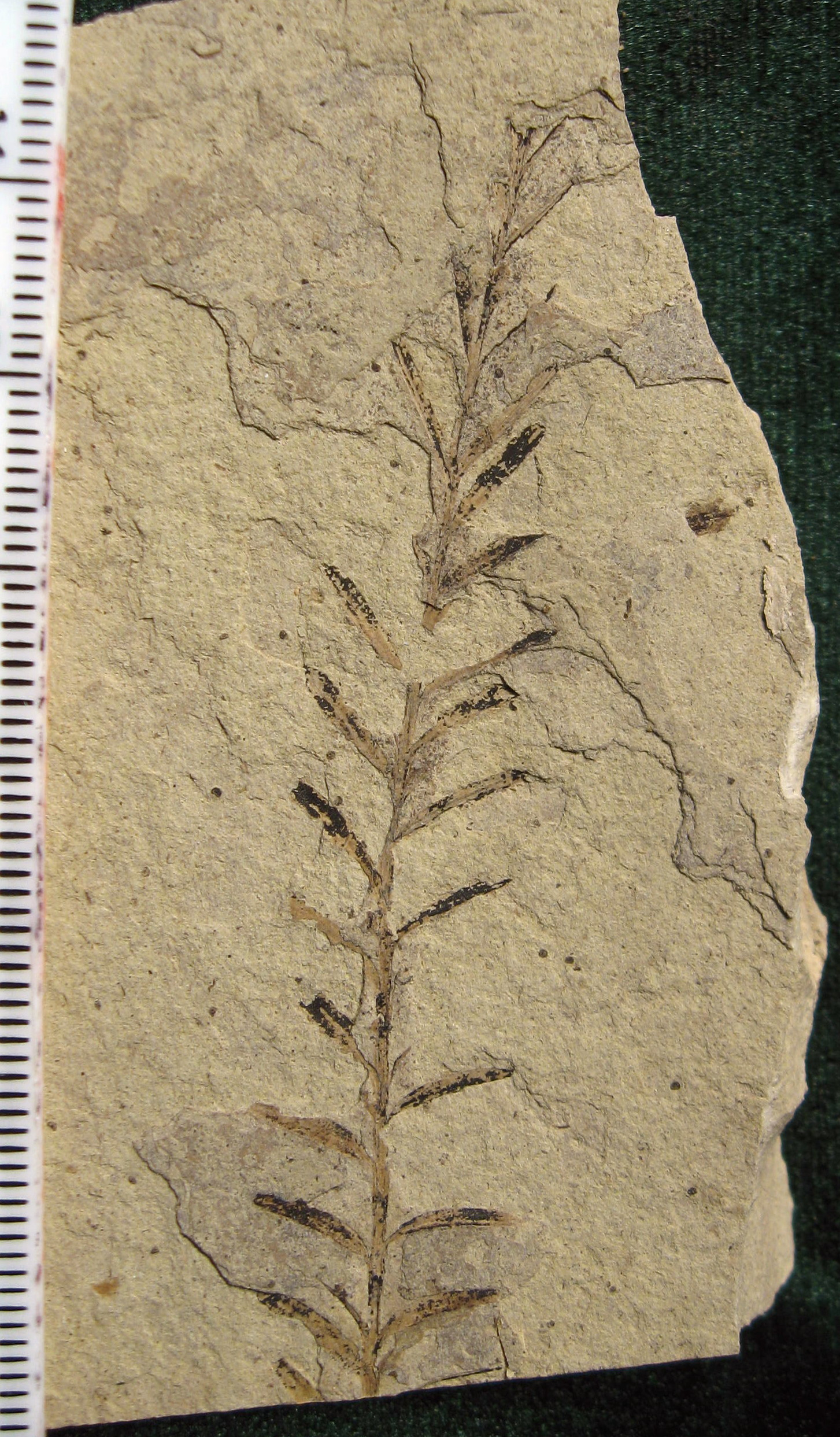 A fossil branchlet from the extinct species Sequoia affinis. ~49.5 million years old. Early Ypresian, "Boot Hill", Klondike Mountain Formation, Republic, Ferry County, Washington, USA. Stonerose Interpretive Center specimen # SR 95-07-06